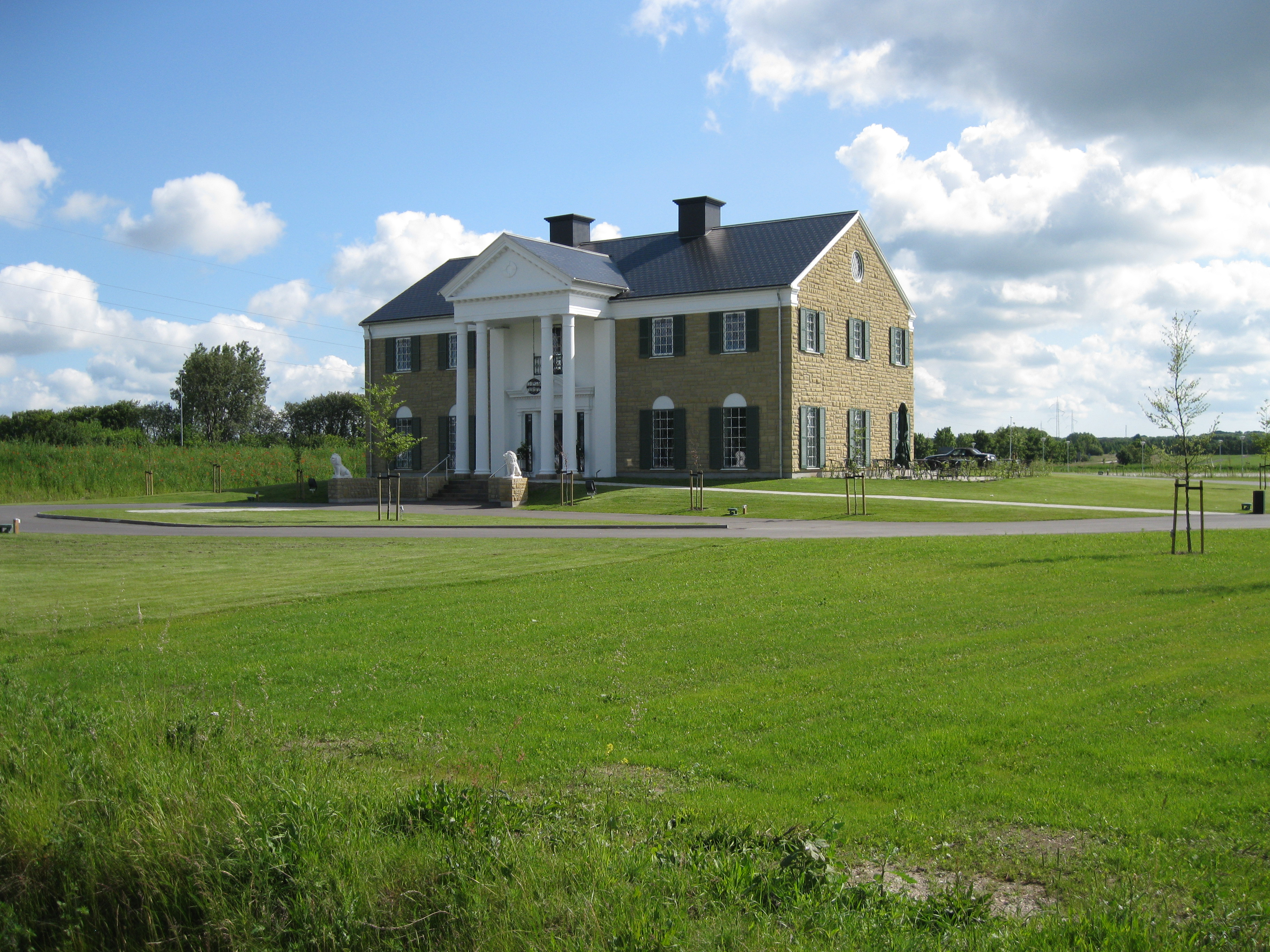 Graceland, Randers, Denmark